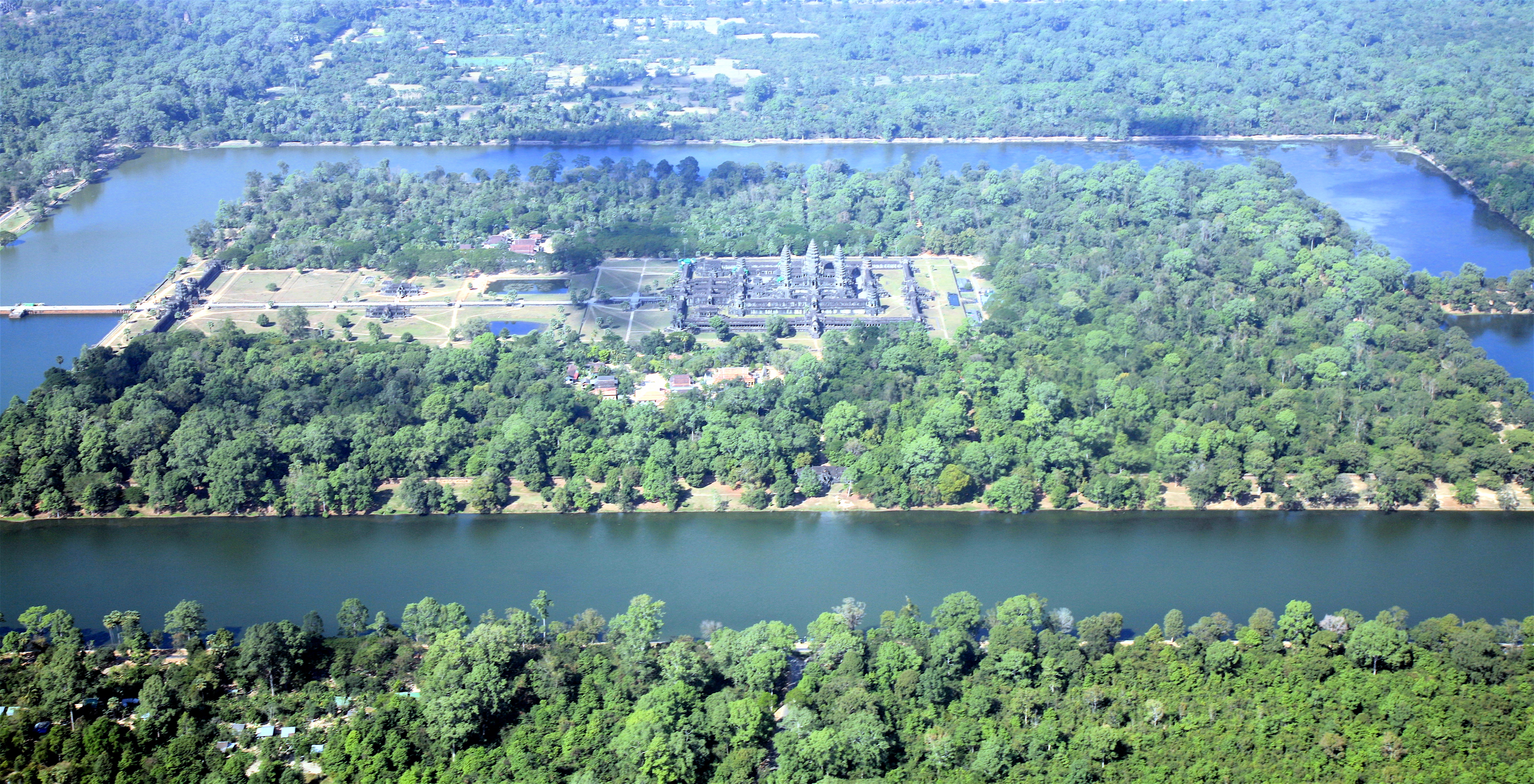 The Angkor Wat temple complex as seen from the air.